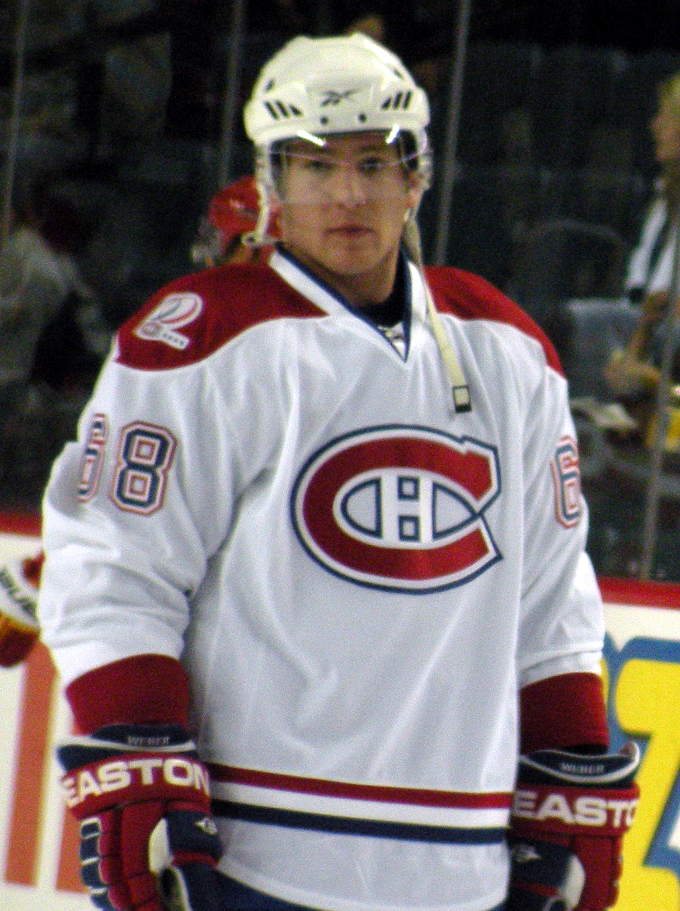 Montreal Canadiens defenceman Yannick Weber during warm-up prior to a National Hockey League game against the Calgary Flames, in Calgary.